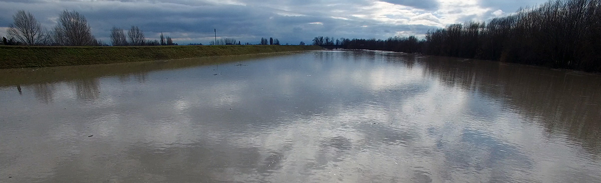 La piena del Reno passa per Cento